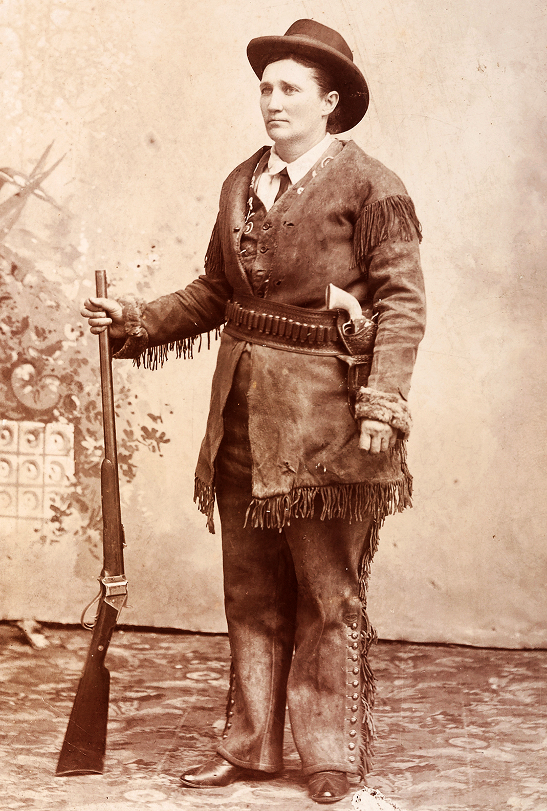 Cabinet photograph captioned in the negative, Calamity Jane, Gen. Crook's Scout. An early view of Calamity Jane wearing buckskins, with an ivory-gripped Colt Single Action Army revolver tucked in her hand-tooled holster, holding a Sharps rifle.